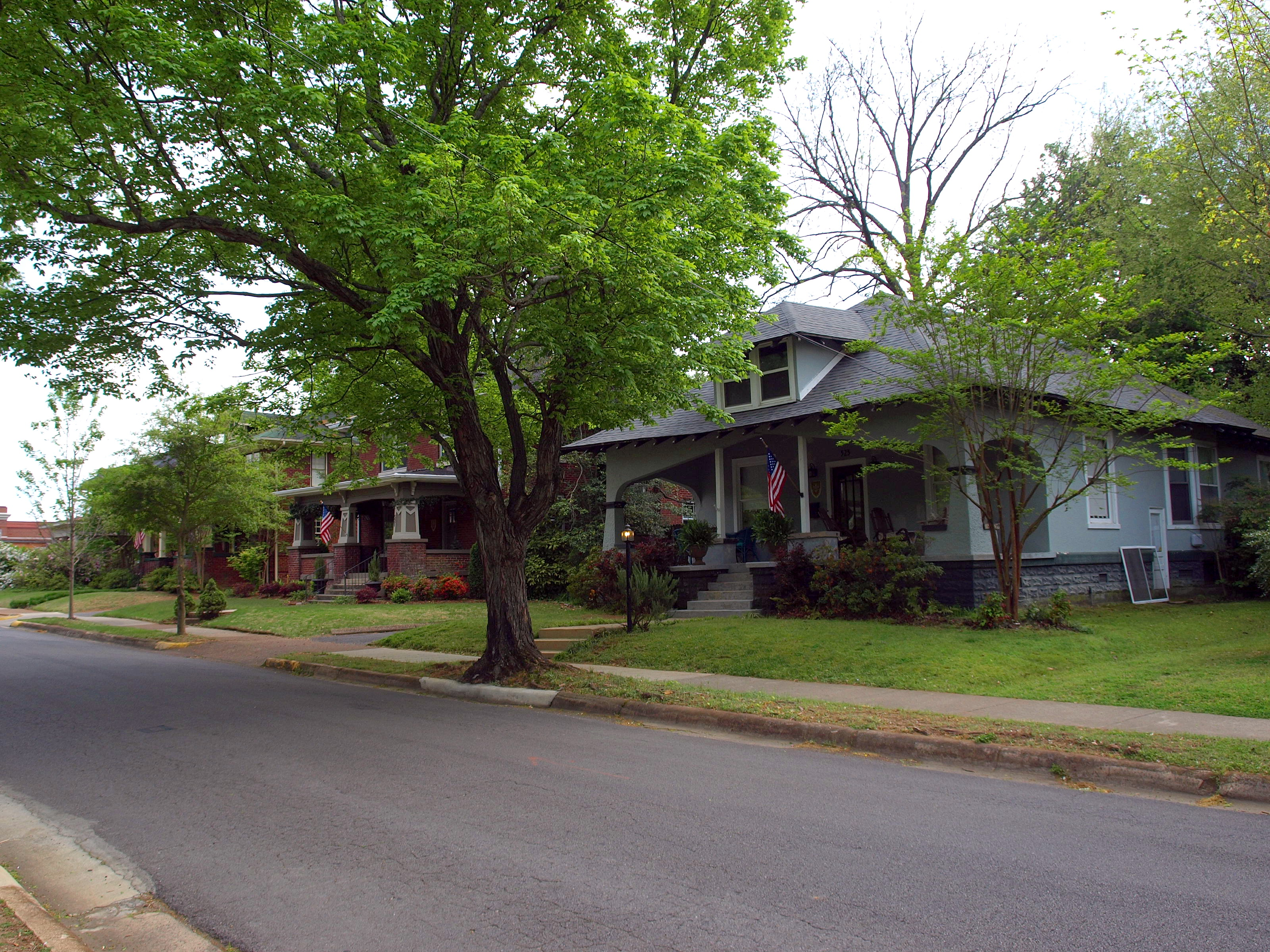 521 and 525 North Seminary Street in Florence, Alabama, part of the Seminary–O'Neal Historic District, listed on the National Register of Historic Places.